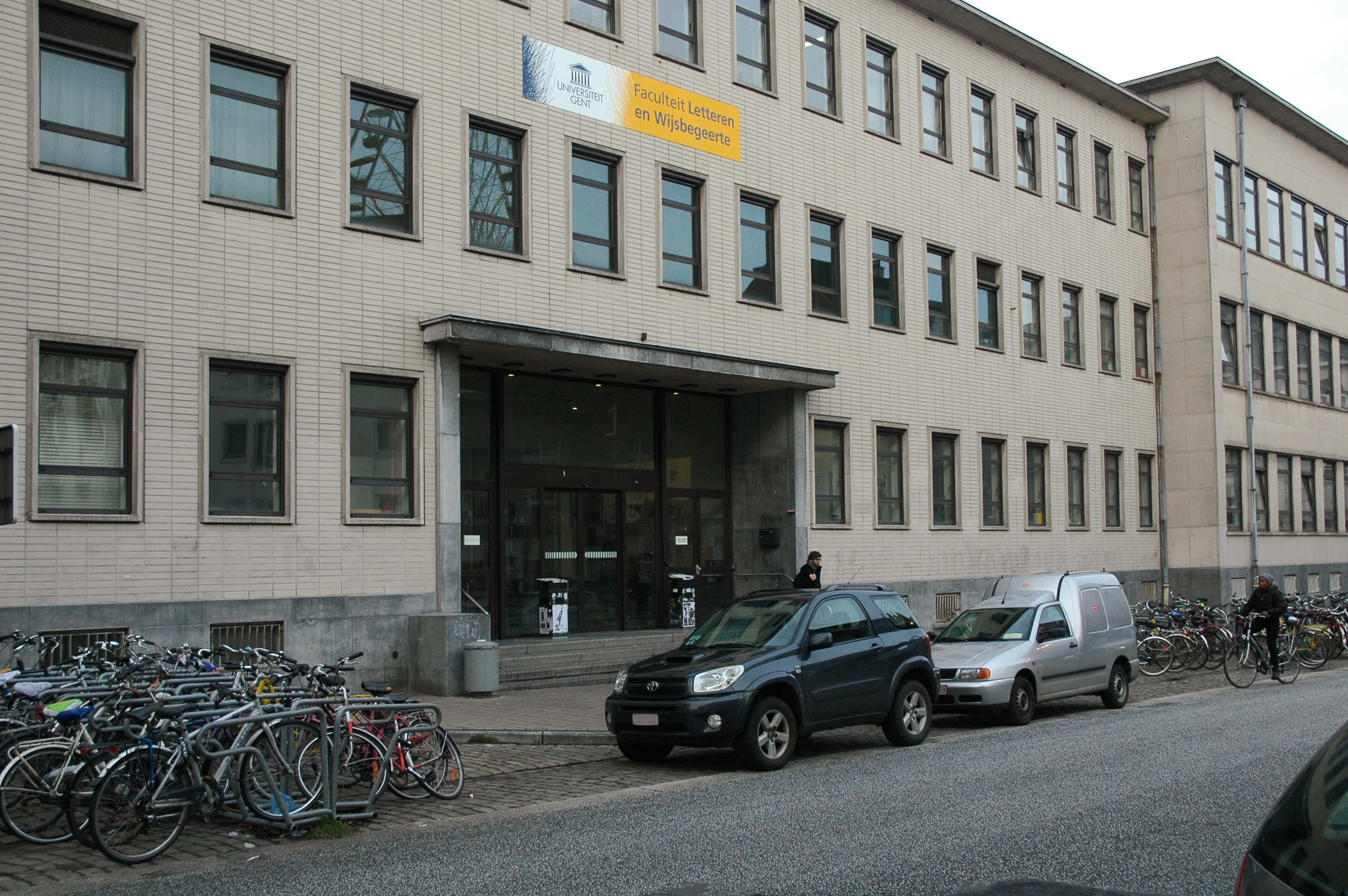 Main entrance (nicknamed TraBla) of the Blandijn building, a buildings complex of the Ghent University in Ghent, Belgium